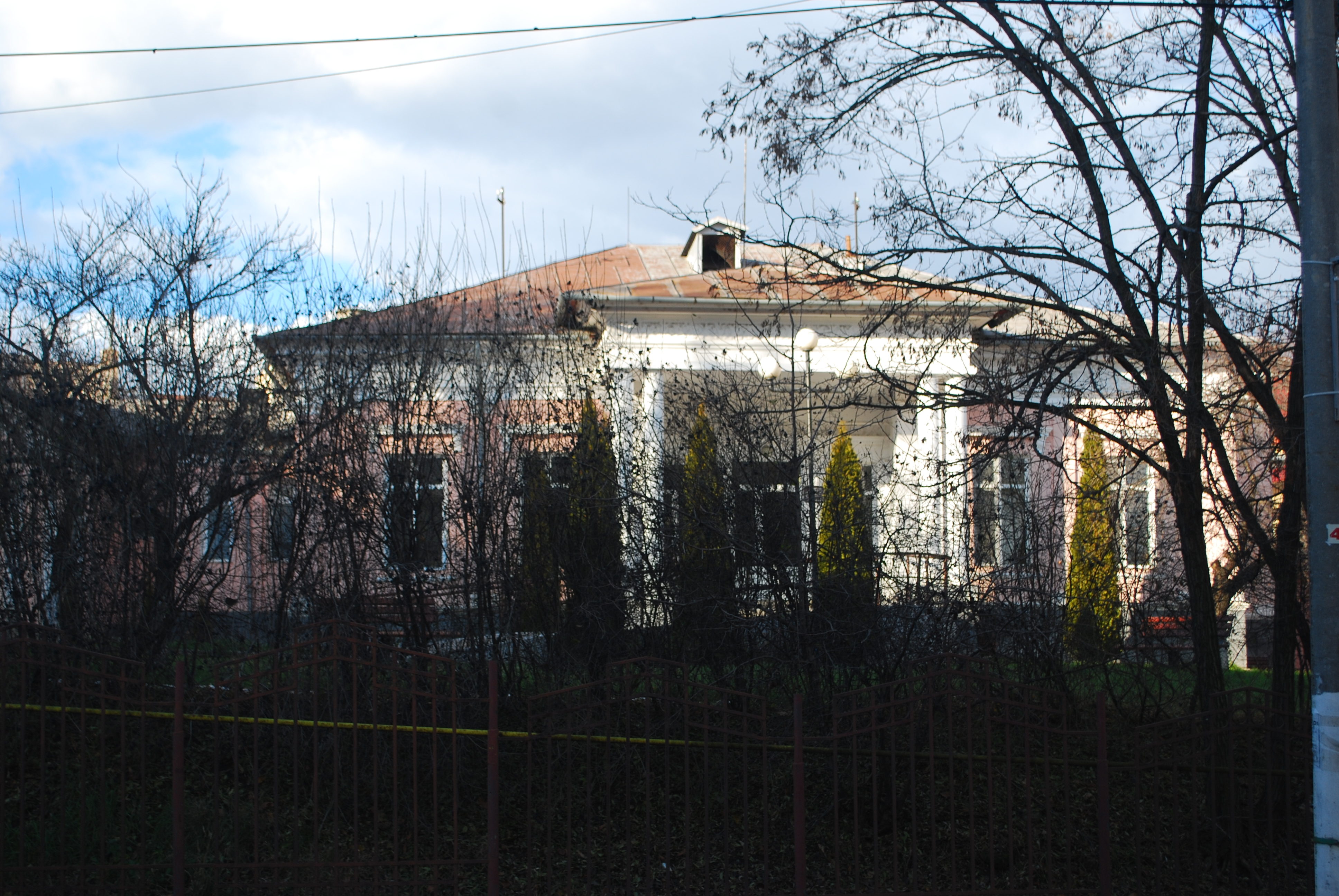 Tax collector Iancu Teodoru's house in Roman, Romania